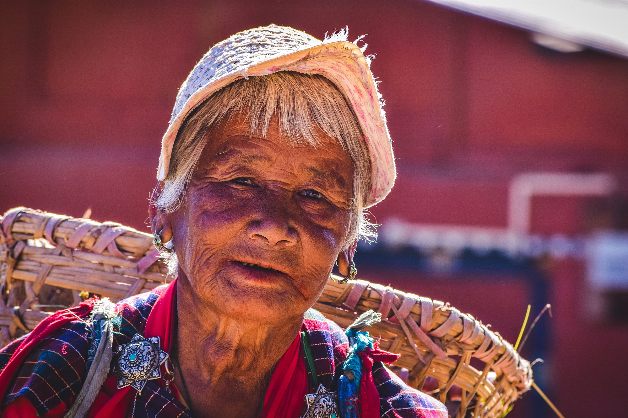 Anciana mujer butanesa.